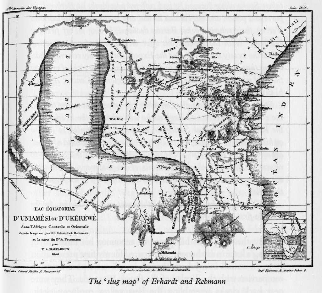 Cartograph drawn by Johannes Rebmann in mid 19th century.